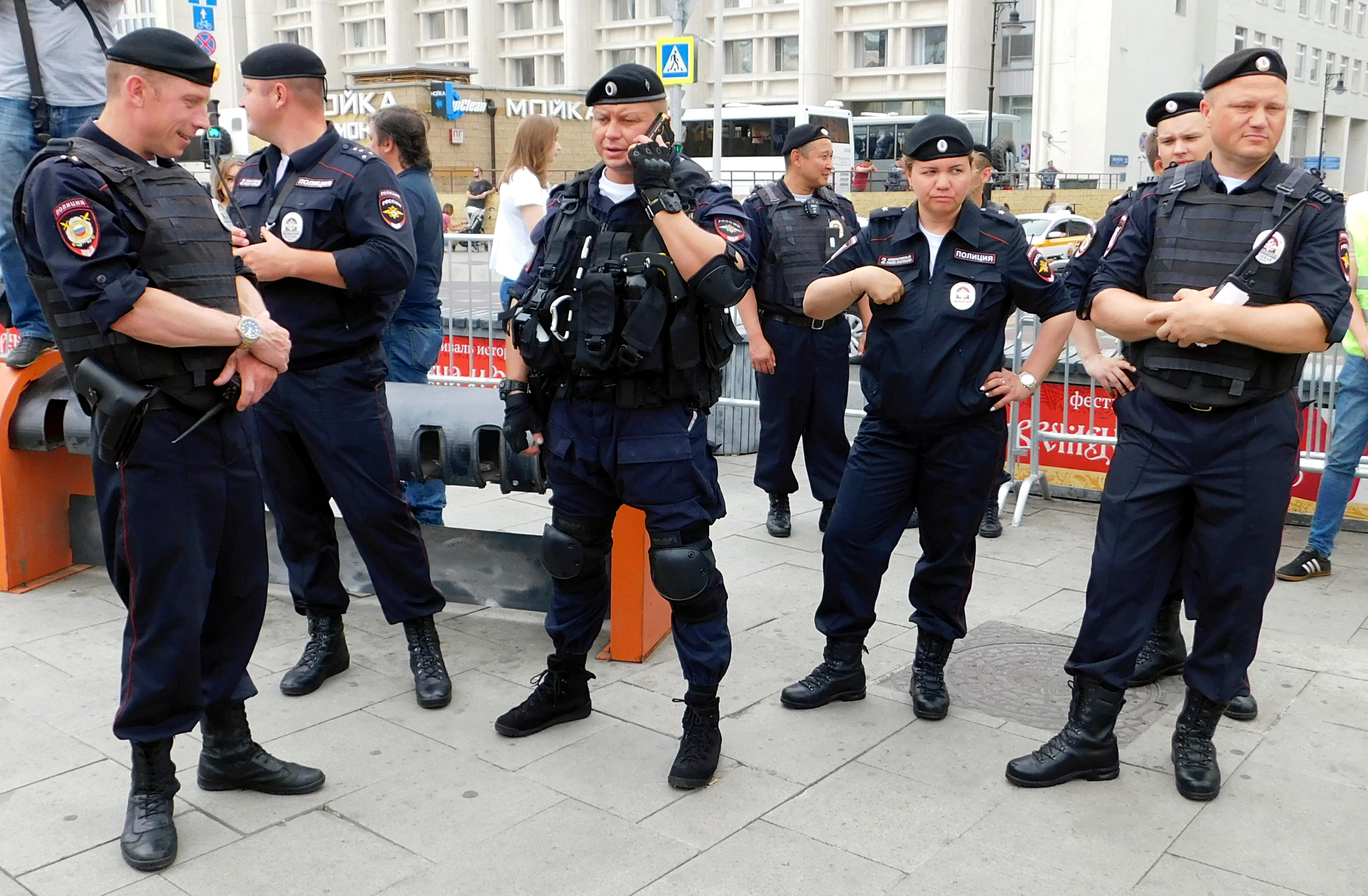 Golunov march